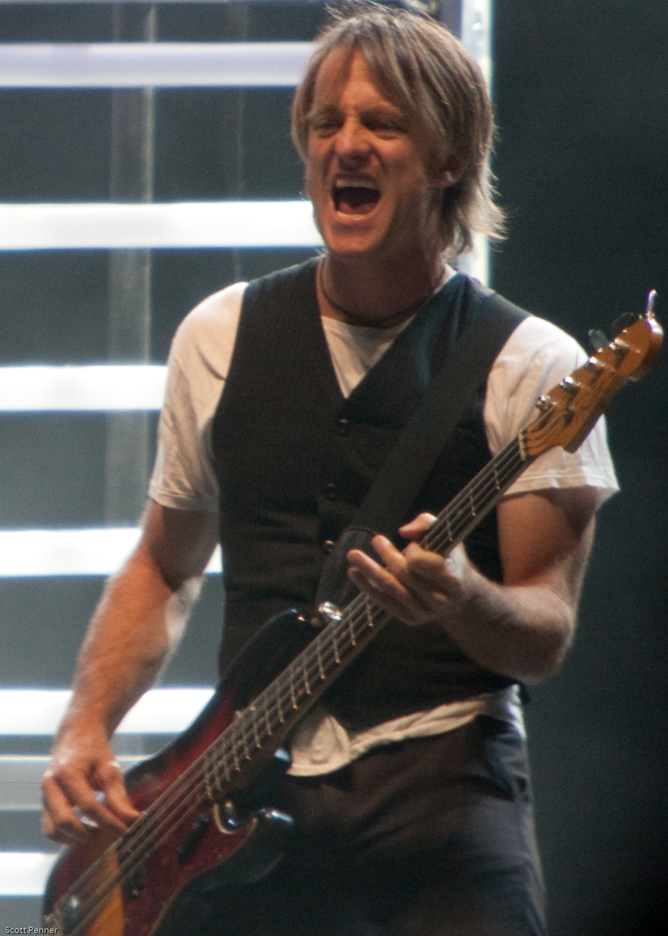 Tuesday July 14'th 2009 Cisco Systems Ottawa Bluesfest Bank of America Stage Raine Maida Jeremy Taggart Duncan Coutts Steve Mazur